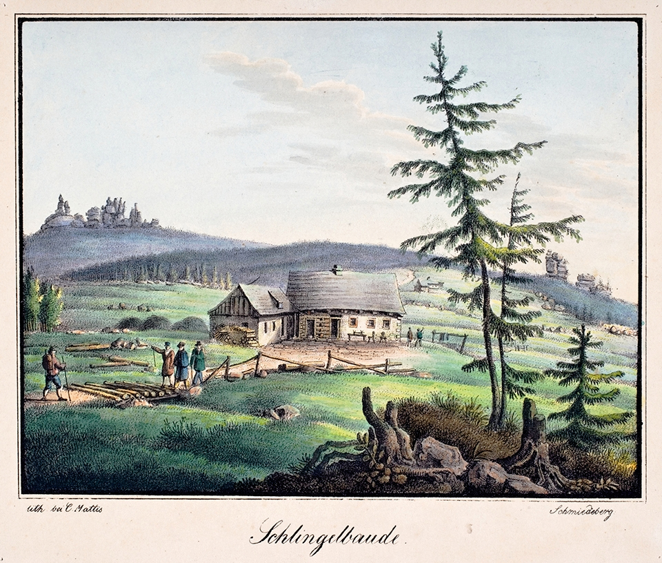 The Schlingelbaude (Rascals Hut) in the Giant Mountains with the rock groups Dreisteine (Three Stones on the left) and Katzenschloss(Cat Castle on the right), colored lithograph by Carl Theodor Mattis, 157 x 193 mm, Haselbach Collection, Inv.-No. 24_K5. Original inscription: Below the image bar: bottom left: lith. by C. Mattis; bottom right: Schmiedeberg; below, in the middle: Schlingelbaude.